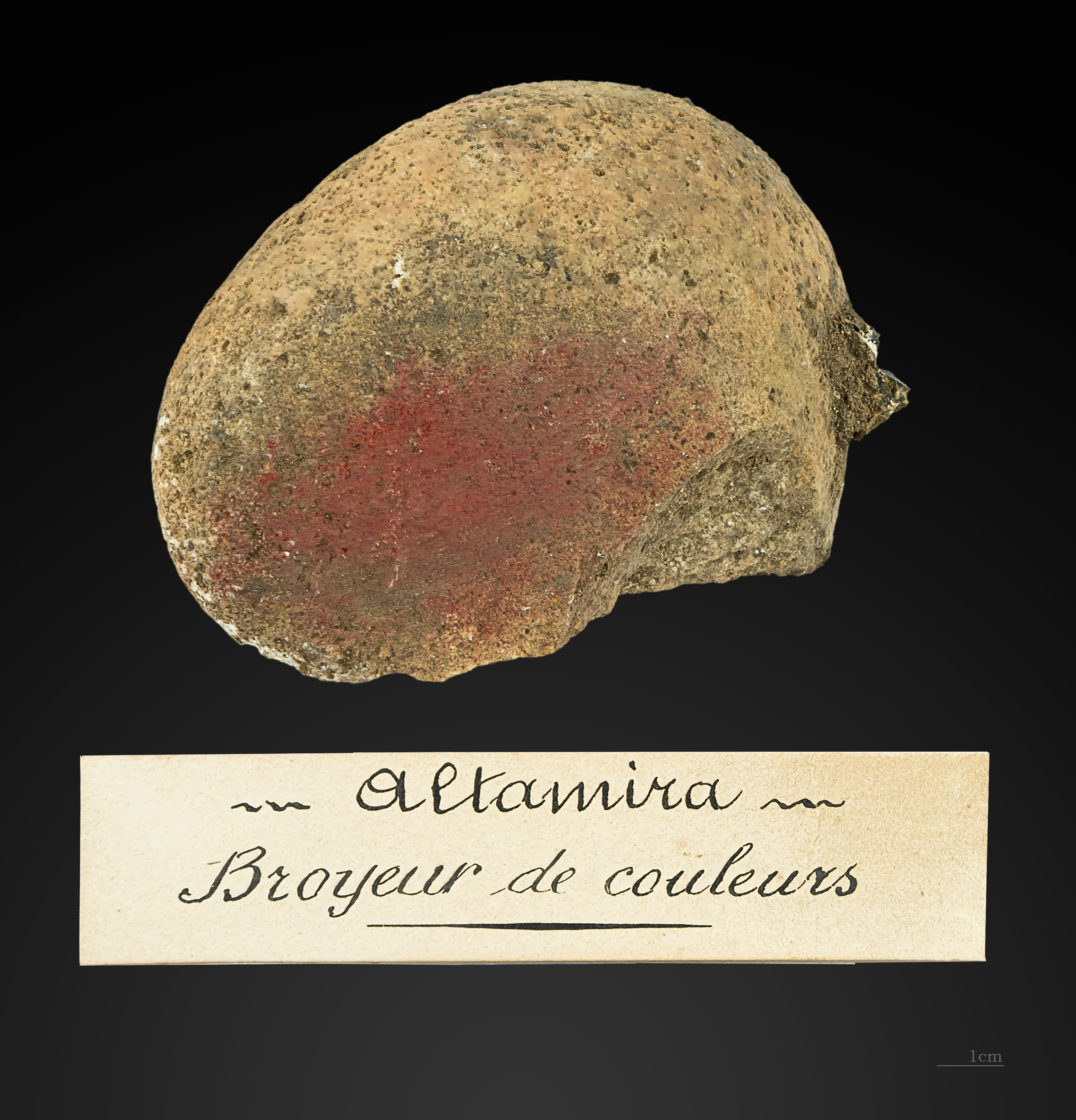 Ochre covered grindstone Cantabrian Lower Magdalenian layer (15 000 before present) of the Altamira cave. Excavations Edouard Harlé 1881.